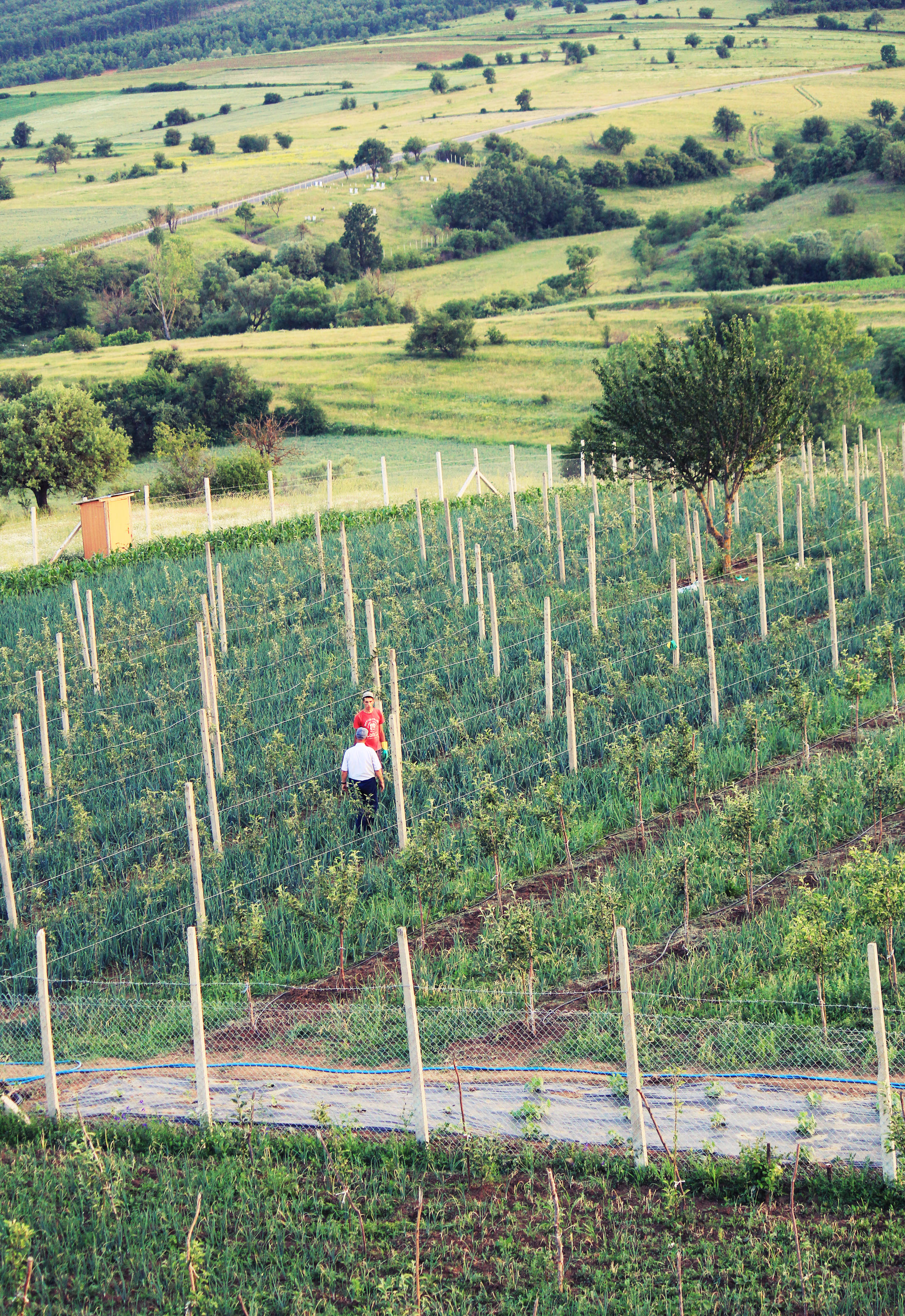 View of Plantation in Bresalc